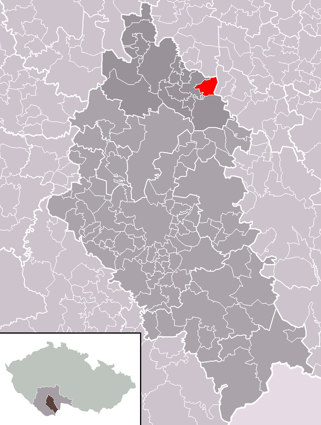 Location of Hartmanice municipality within České Budějovice District and administrative area of Týn nad Vltavou as a Municipality with Extended Competence.